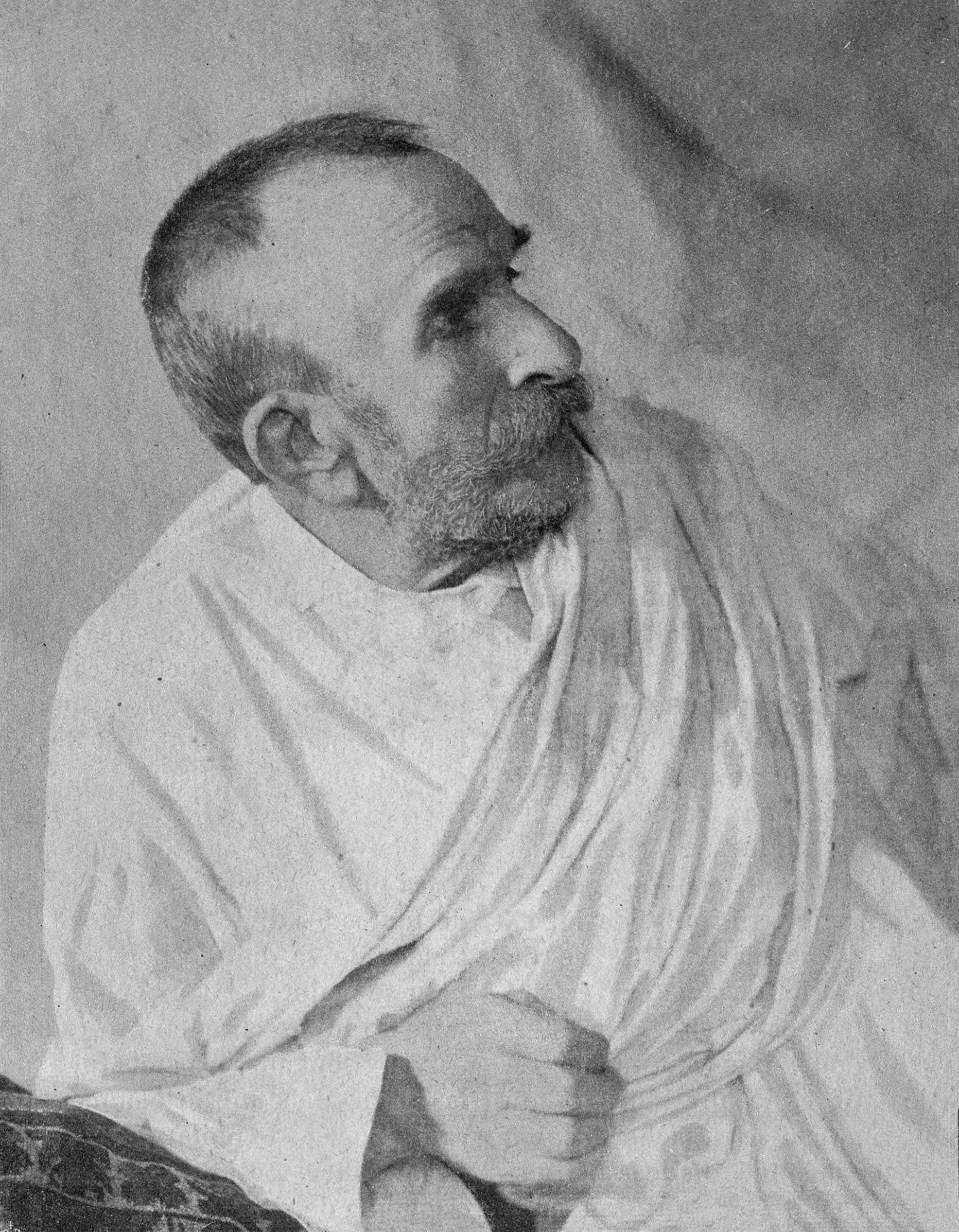 Illustration from the Catholic Encyclopedia, (Volume 1: Abbadie, Arnauld d') Caption: Arnauld_d'Abbadie